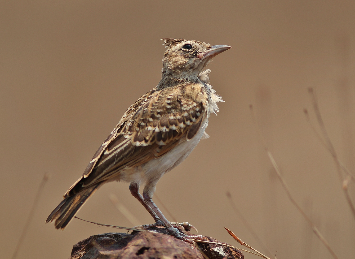 Very similar to the Crested Lark but is smaller at 15 cms. and dark-streaked reddish brown in plumage, whereas the Crested Lark is grey. Also the belly is white as seen clearly in this shot. Eats insects, seeds and grains.